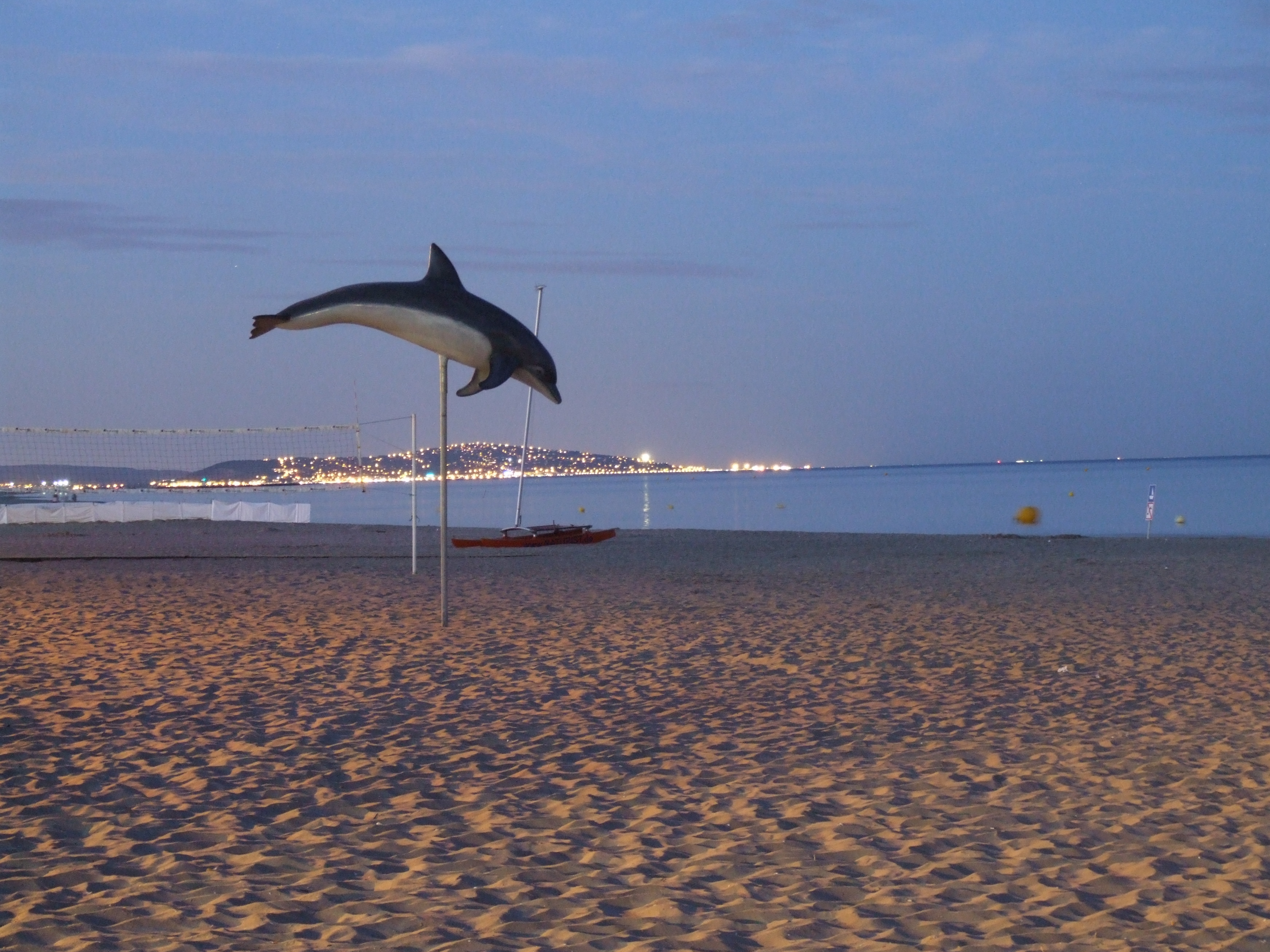 Nudist beach, Cap d'Agde, France, with a view of Sète in the background.